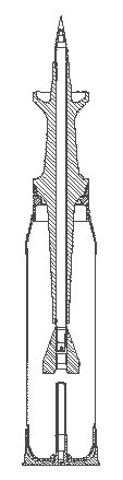 U.S. Army M829A2 anti-tank artillery round. Source: US Defense Technical Information Agency URL